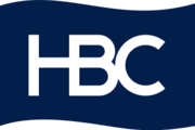 HBC Logo